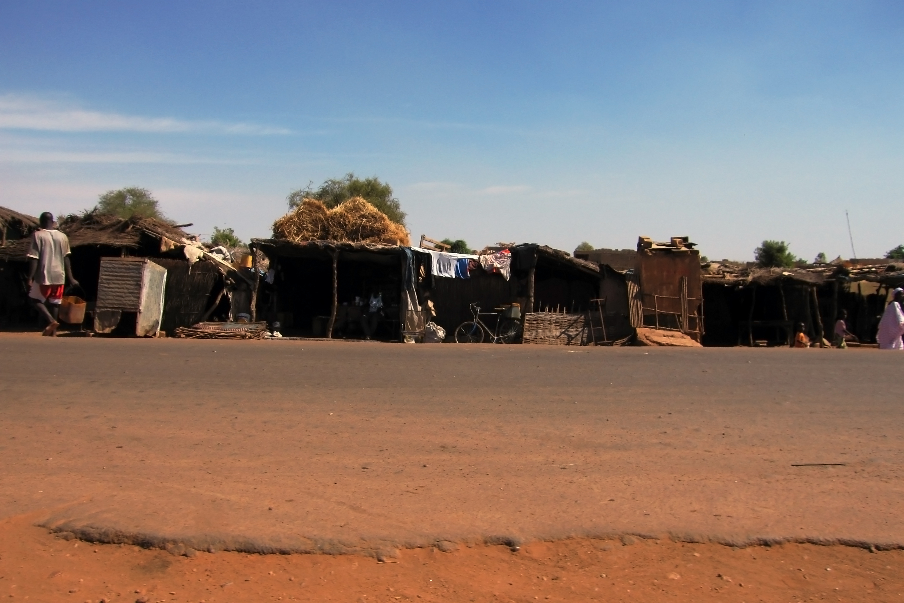 Kidira view - in Senegal near the border with Mali